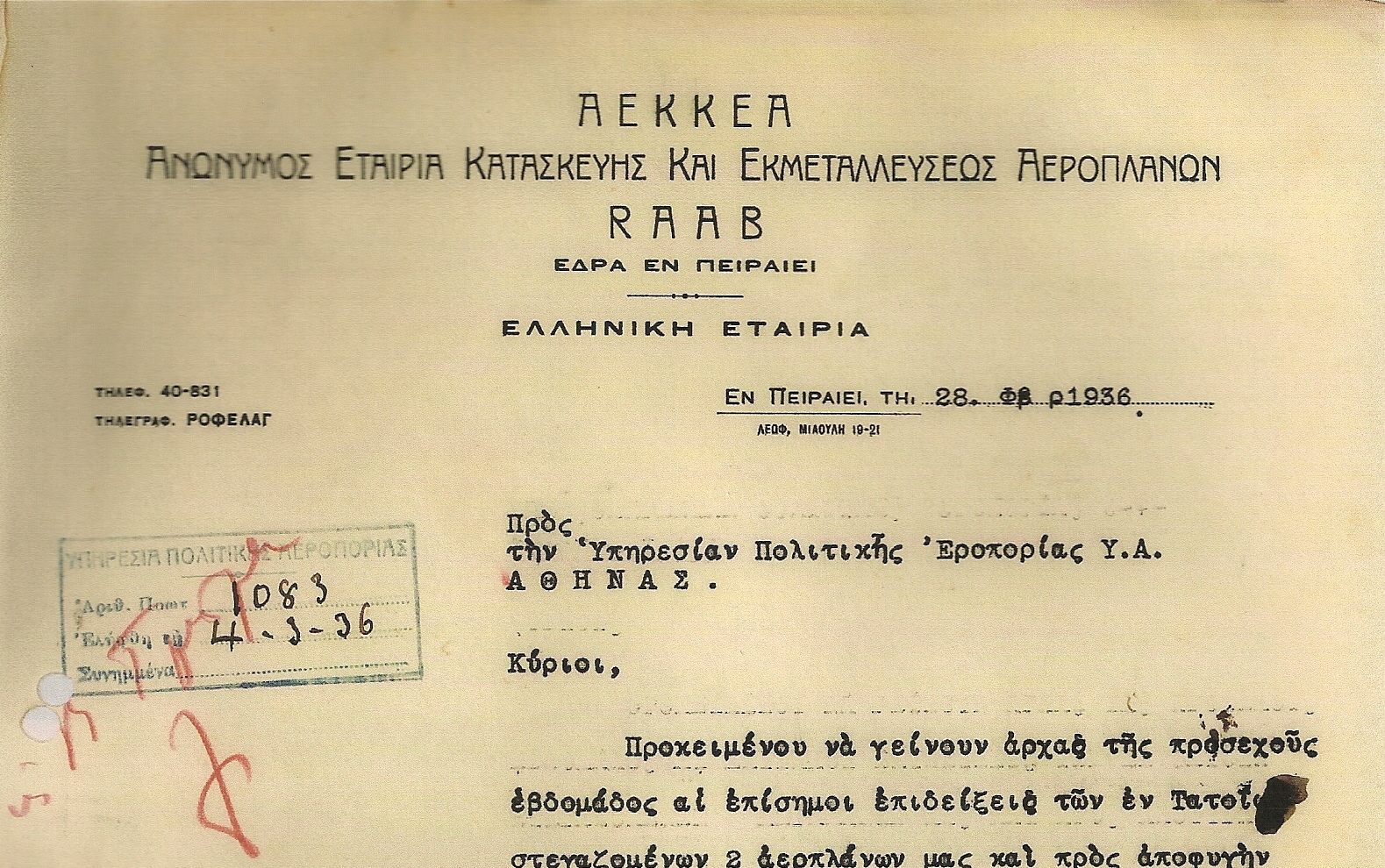 Top part of a 1936 AEKKEA-RAAB company letter, kindly provided by Mr. Michalis Pararas. It can be reproduced, it would be proper to mention Mr. Pararas's name though.